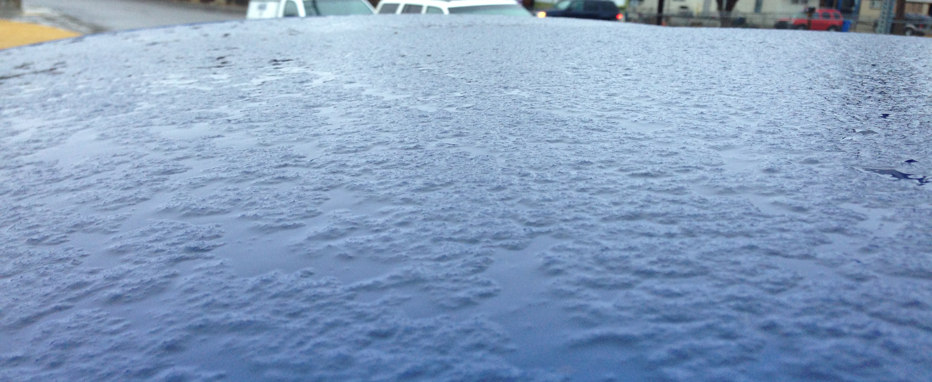 Slush produced from a mixture of rain and snow (Commonwealth definition of sleet)